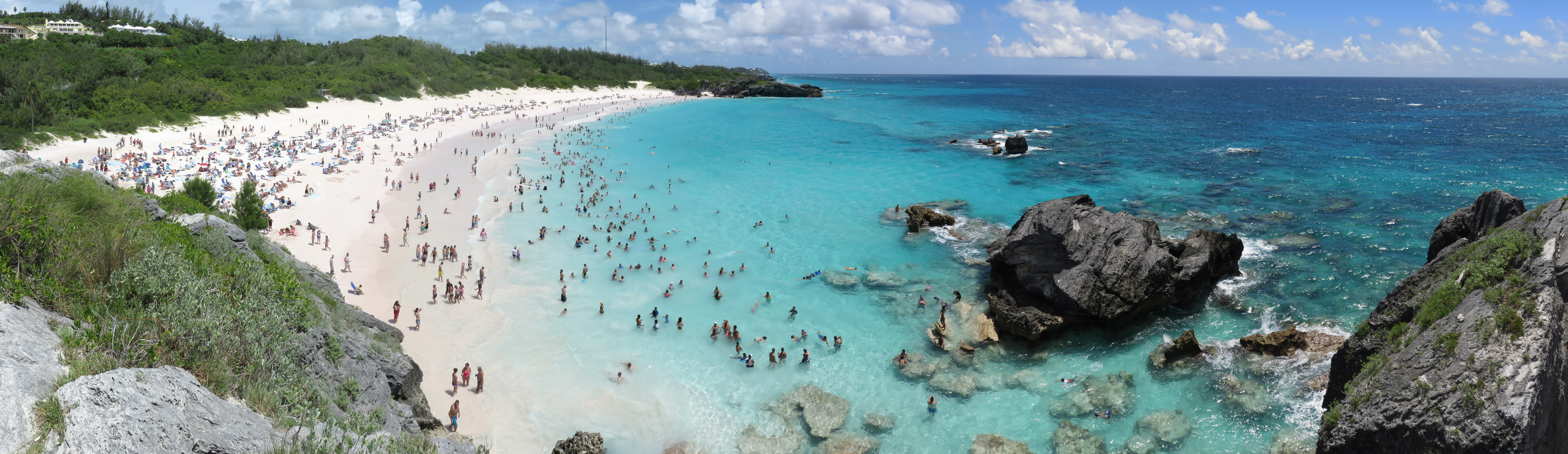 Enjoyed a cruise that left from NYC, spent several days docked in Bermuda, and then returned to NYC. Spent a bit of time at Horseshoe Bay Beach.